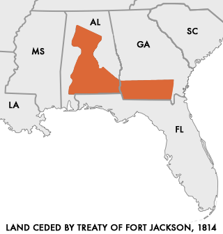 Map of Land Ceded to the United States by the warring Creek Nations in the Treaty of Fort Jackson of 1814.User:Dystopos created this map using as reference a map "Creek Land Cessions Map 1733 through 1832" from the Horseshoe Bend National Military Park page on [1]